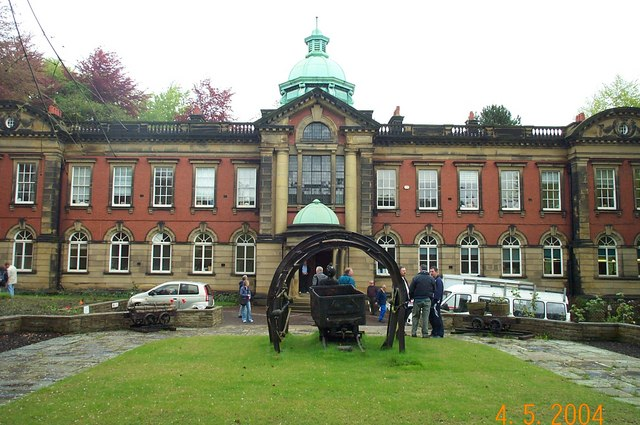 Durham NUM Headquarters The former Headquarters of Durham Miners Union